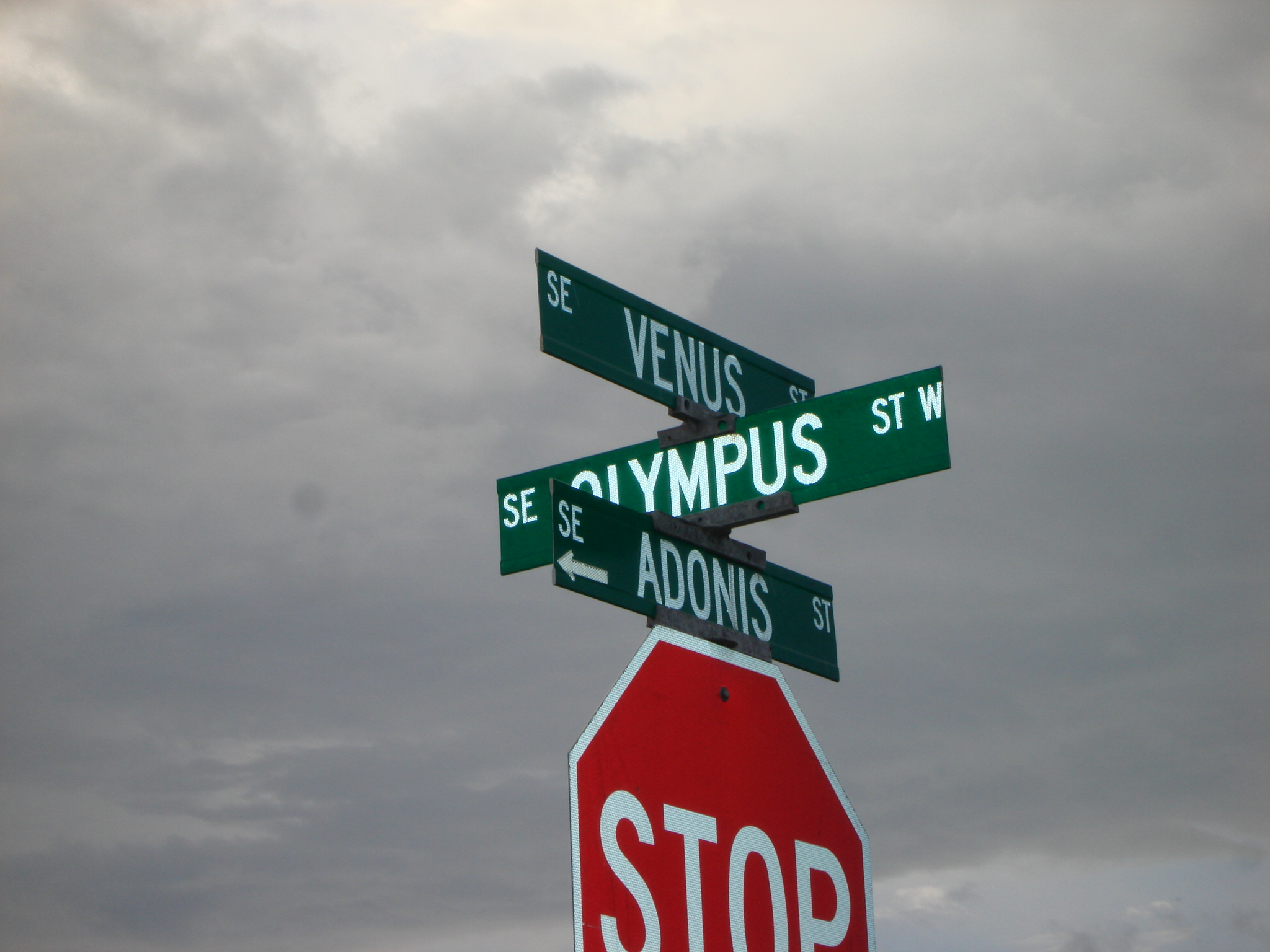 Street signs showing the names of the streets from the Picture City proposal.